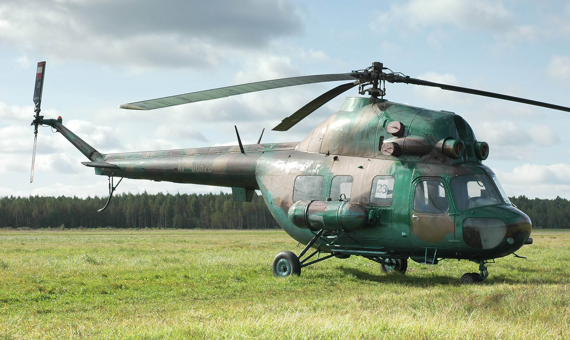 Mi-2 in Borki, Tver region, Russia Author: Dmitry A. Mottl email: dm_at_mottl.ru